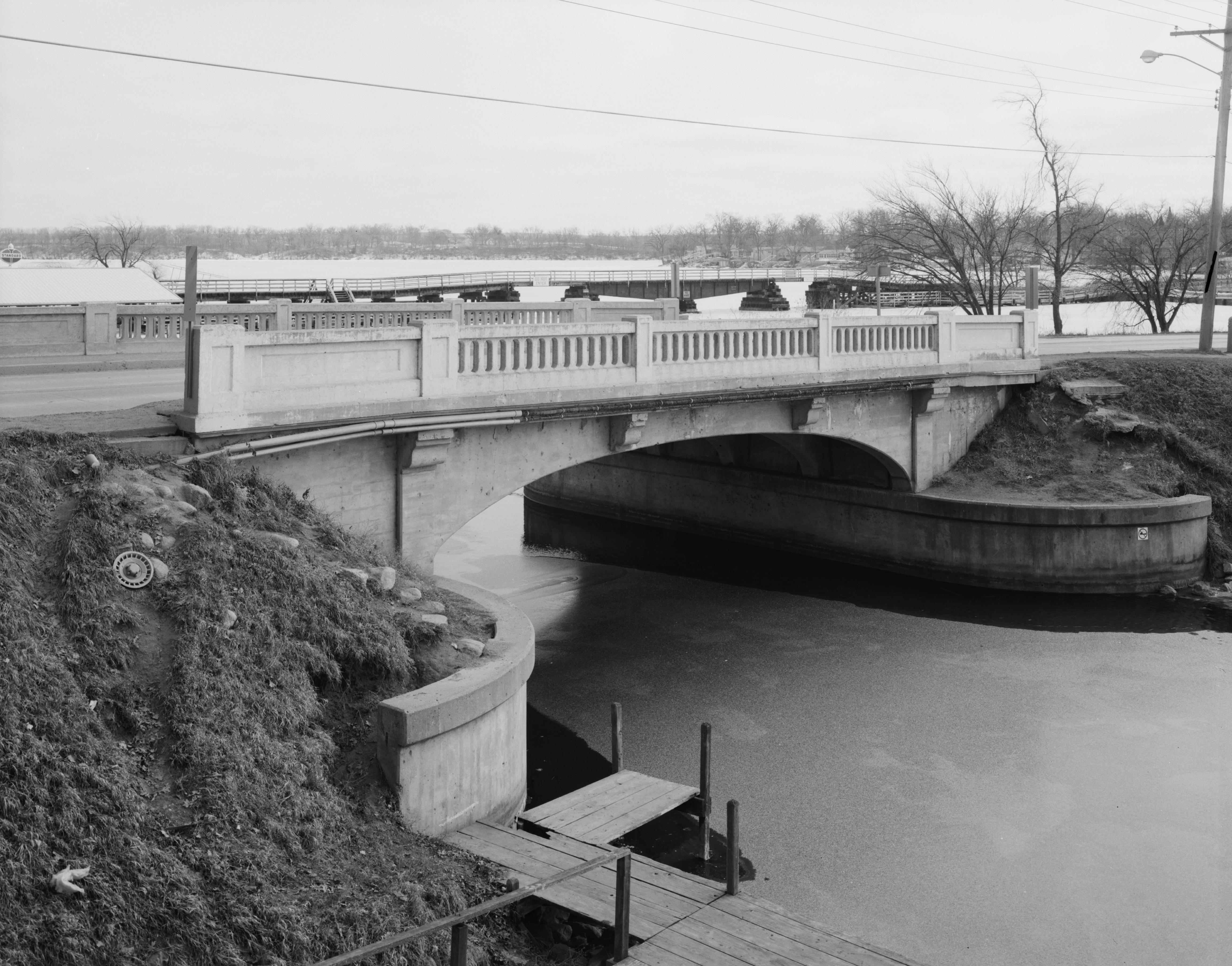 Okoboji Bridge, Spanning Strait betweent East & West Okoboji Lakes, Okoboji (Dickinson County, Iowa)